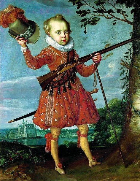 Duke Frederick (1609-1670), Christian IV’s second son, Later King Frederick III of Denmark